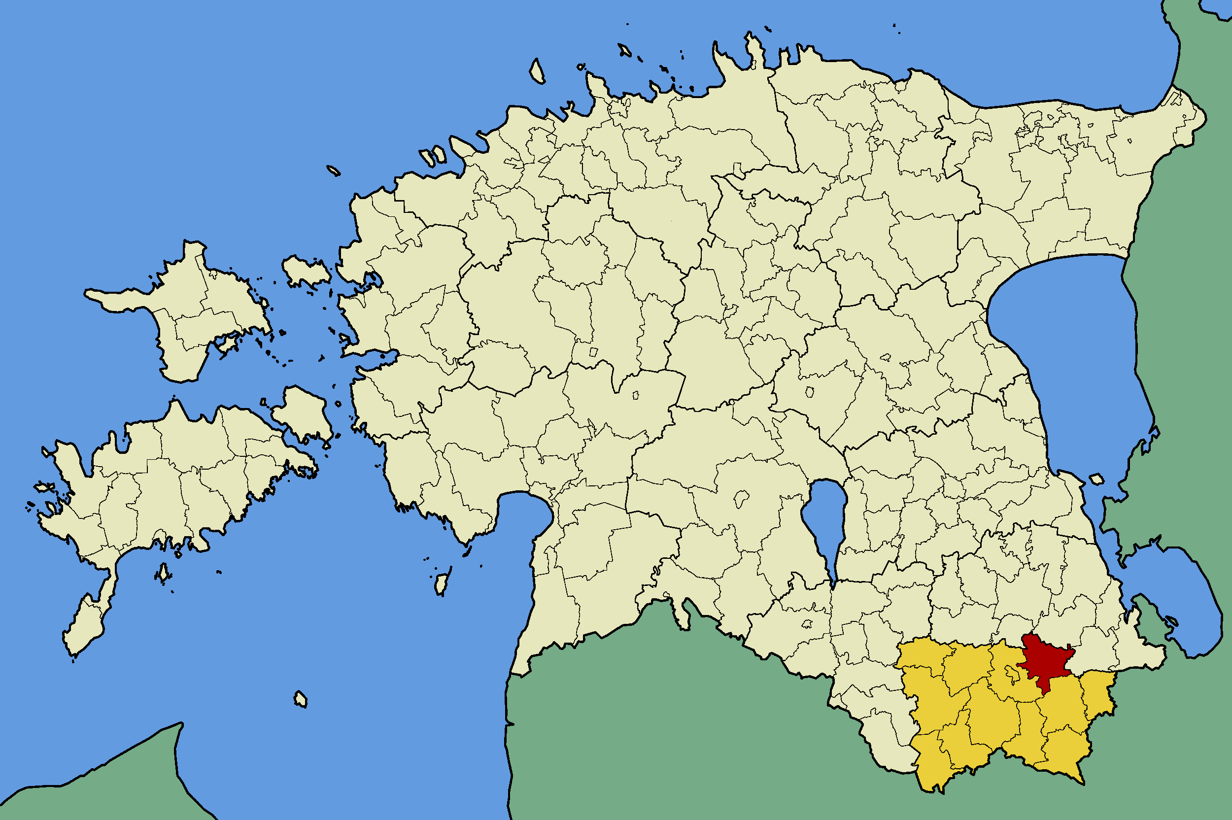 Map of Estonia with borders of municipalities (parishes). Võru county and Lasva municipality emphasized.